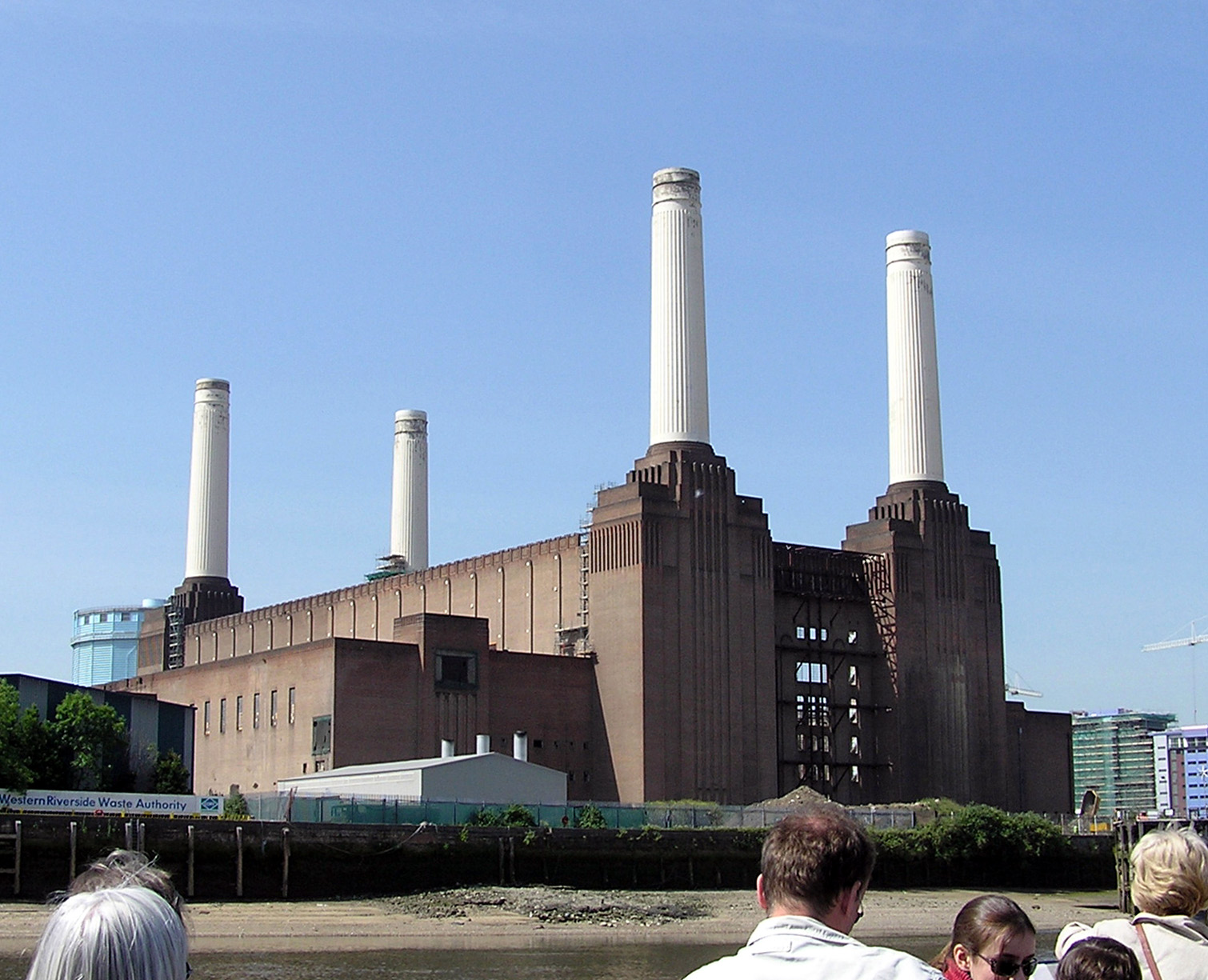 Battersea Power Station. Taken from a tourist boat. Photographed by Adrian Pingstone in June 2005 and released to the public domain.